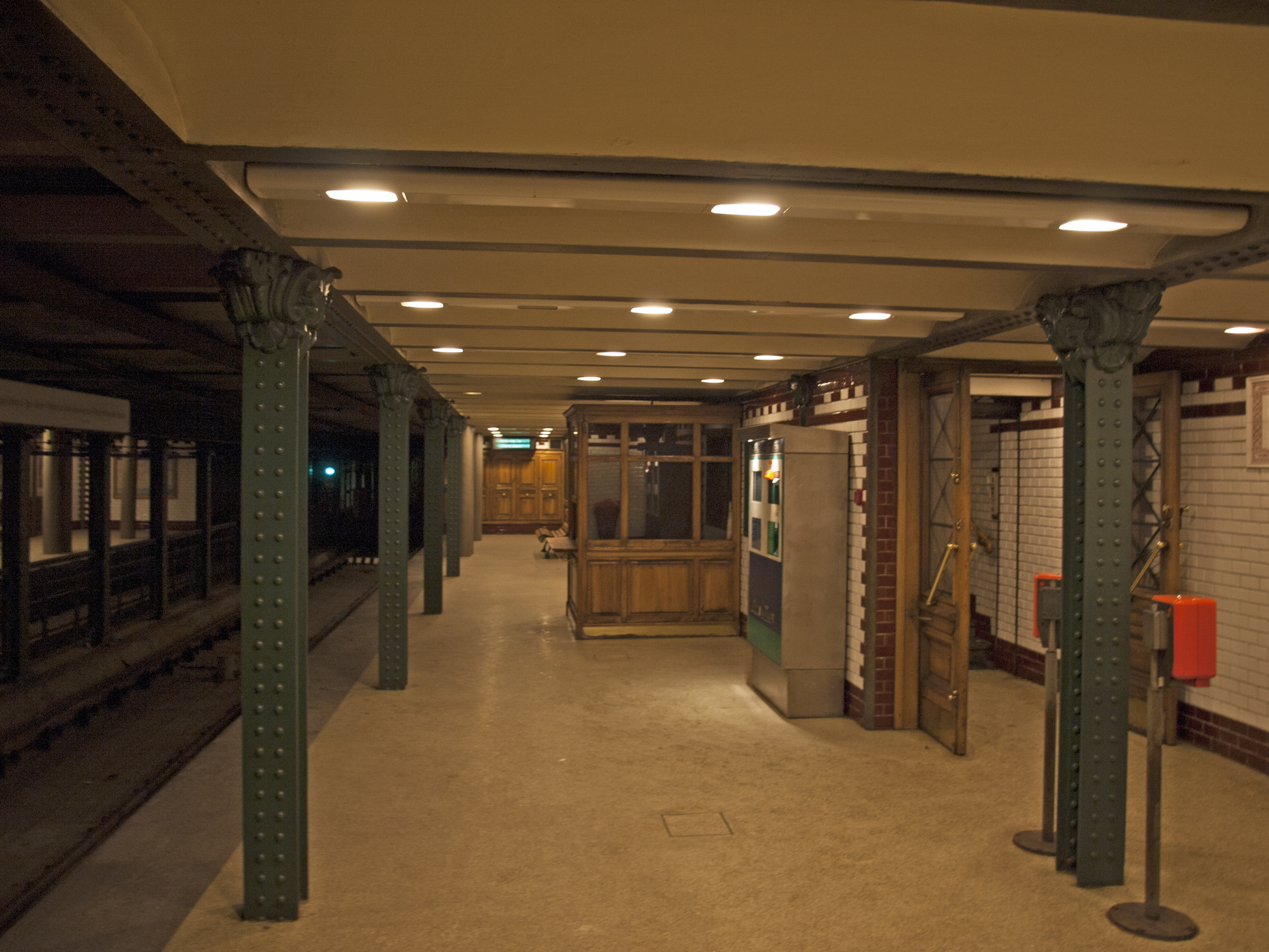 Eastbound platform, Bajza utca station, Budapest metro